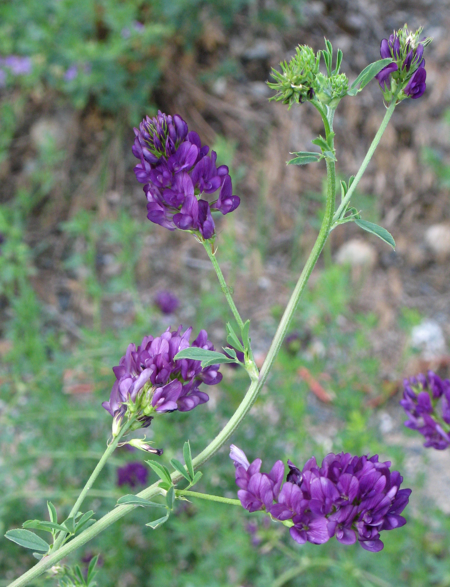 Alfalfa (Medicago sativa) near Lillooet, B. C., Canada